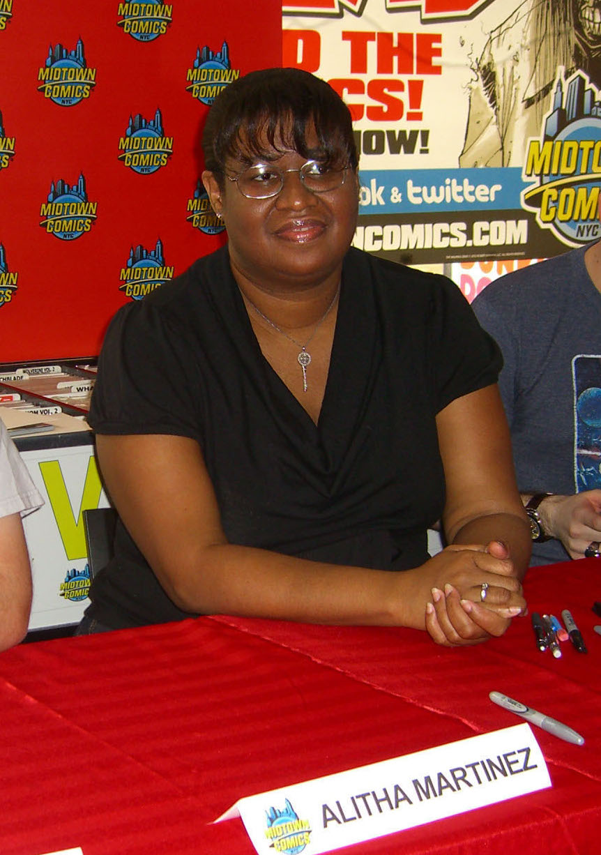 Comic book creator Alitha Martinez at a September 8, 2012 signing for Red Circle Comics' New Crusaders: Rise of the Heroes #1 at Midtown Comics in Manhattan. Flynn is the writer on the book, while Jampole illustrated a variant cover for it. Martinez, who is the artist on issue #3, was on hand to provide sketches for fans, as was Jampole. This photo was created by Luigi Novi. It is not in the public domain, and use of this file outside of the licensing terms is a copyright violation.